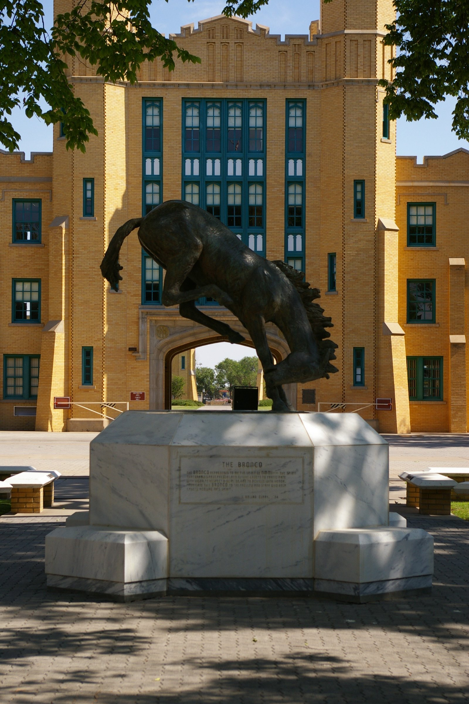 The bronco plaza at the New Mexico Military Institute